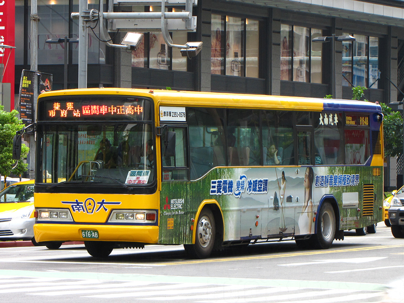 2002 HINO ERK2JRL